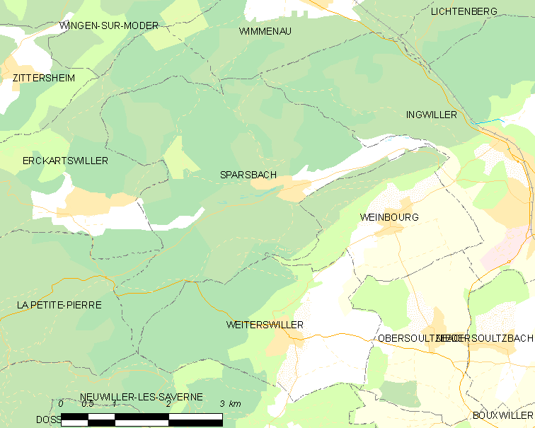 Map of French municipality